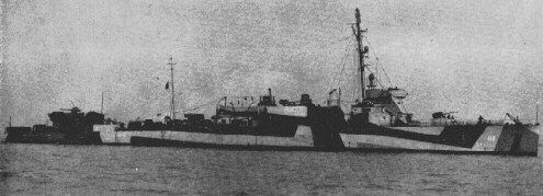 USS Lea (DD-118).